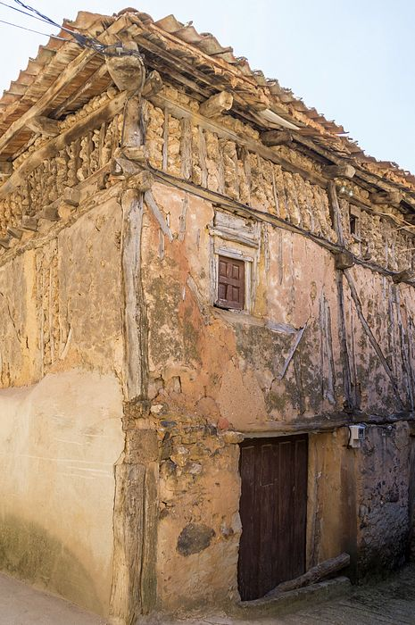 Arquitectura popular